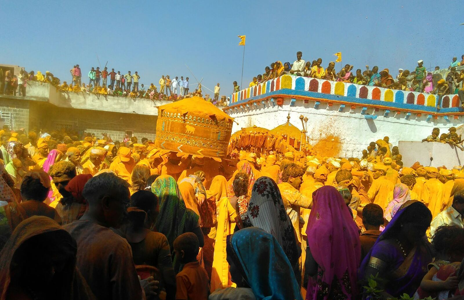 A panoramic view of Karisiddeshwar fair (2015) during Deepavali